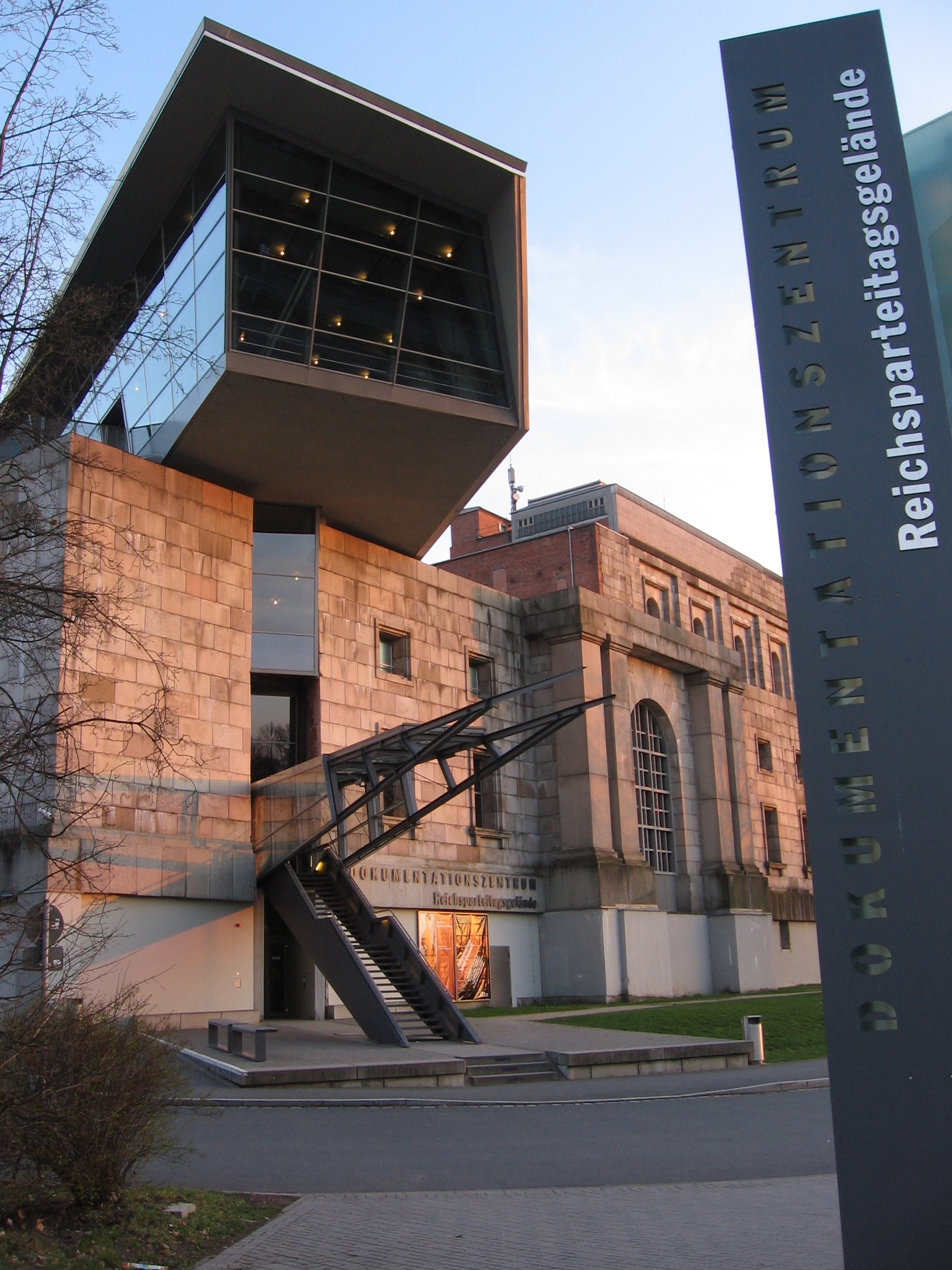 Image of "Dokumentationszentrum Reichsparteitagsgelände" (Nuremberg, Germany), which is integrated into the "Kongresshalle" (part of Nazi party rally grounds)